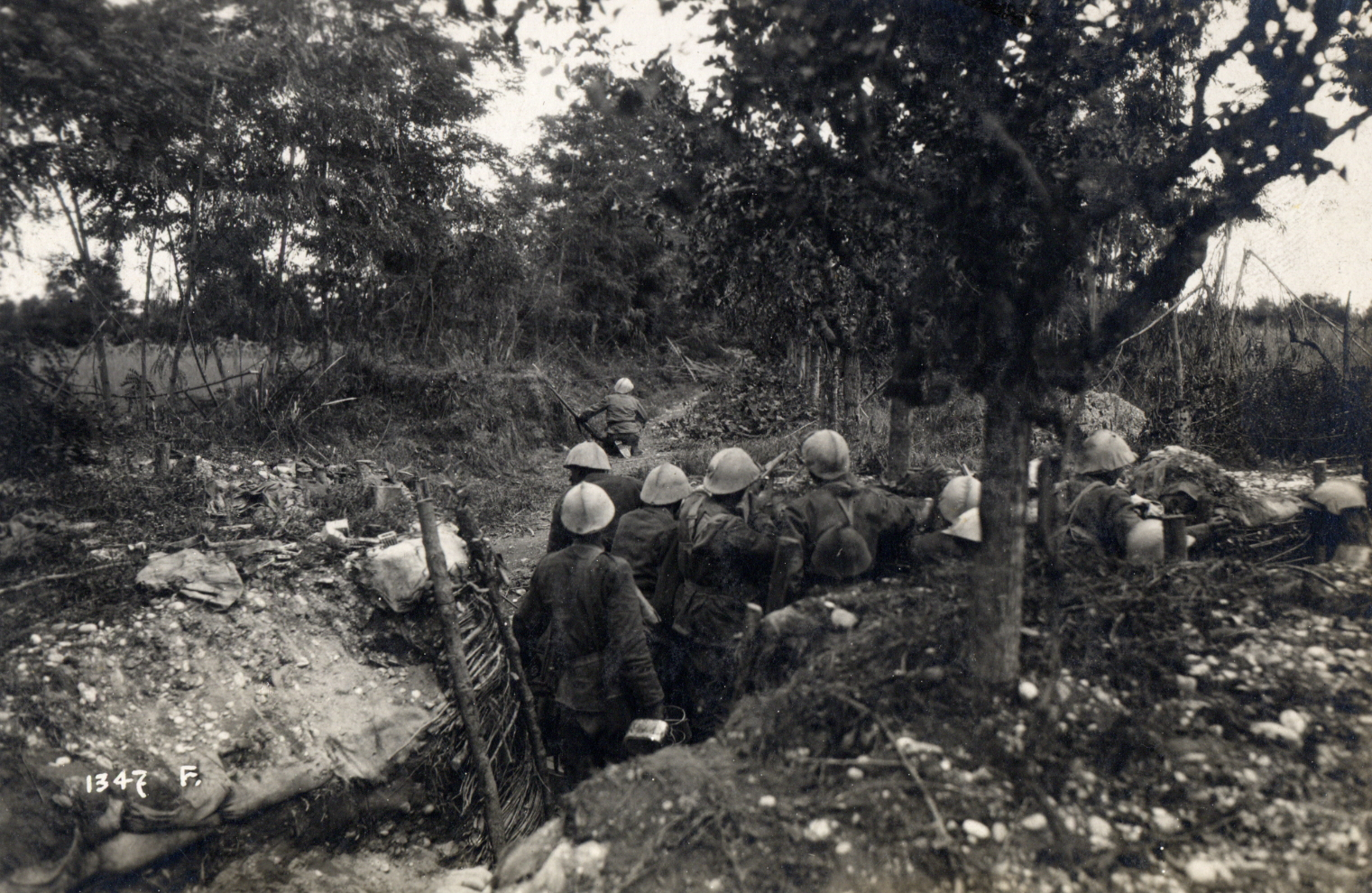 World War 1 - Italian Army: After the Italian retreat following the Battle of Caporetto, provisional trenches near Case Ruei on the new frontline along the Piave River